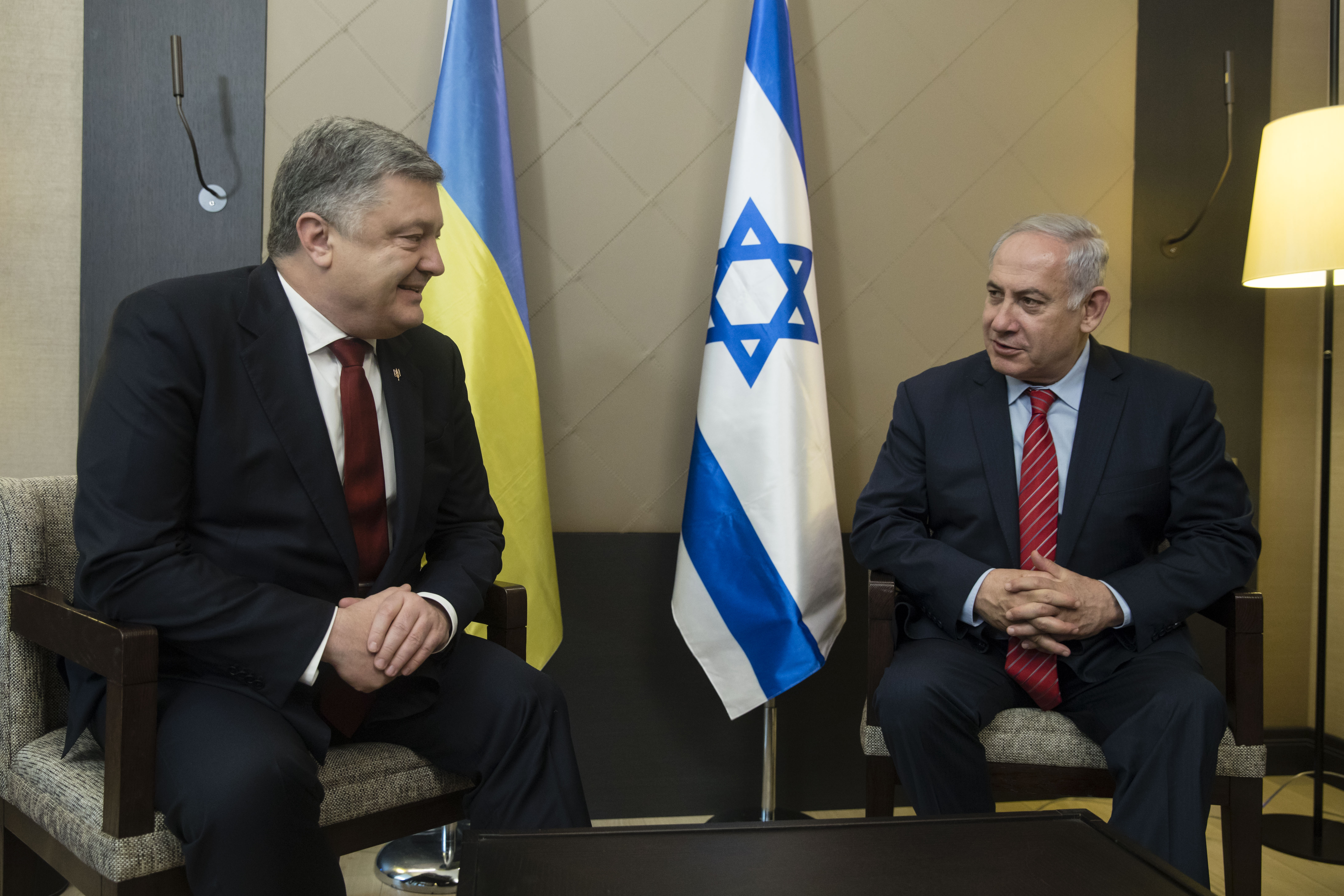 President of Ukraine held a meeting with the Prime Minister of Israel